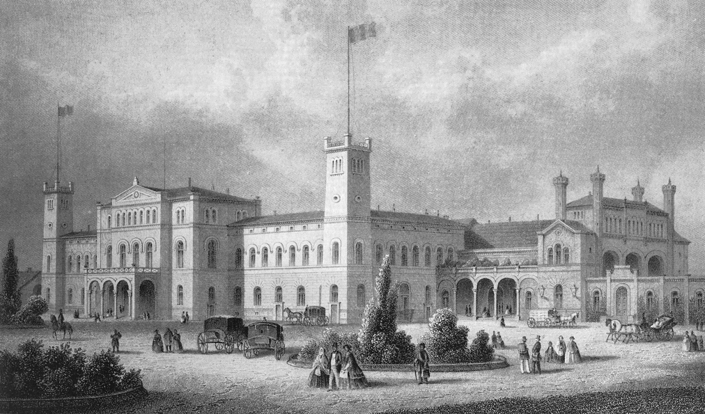 Steel engraving based on a drawing by Julius Gottheil showing the old train station Hannoverscher Bahnhof in Bremen. Built 1847 by Alexander Schröder, dismantled 1885.